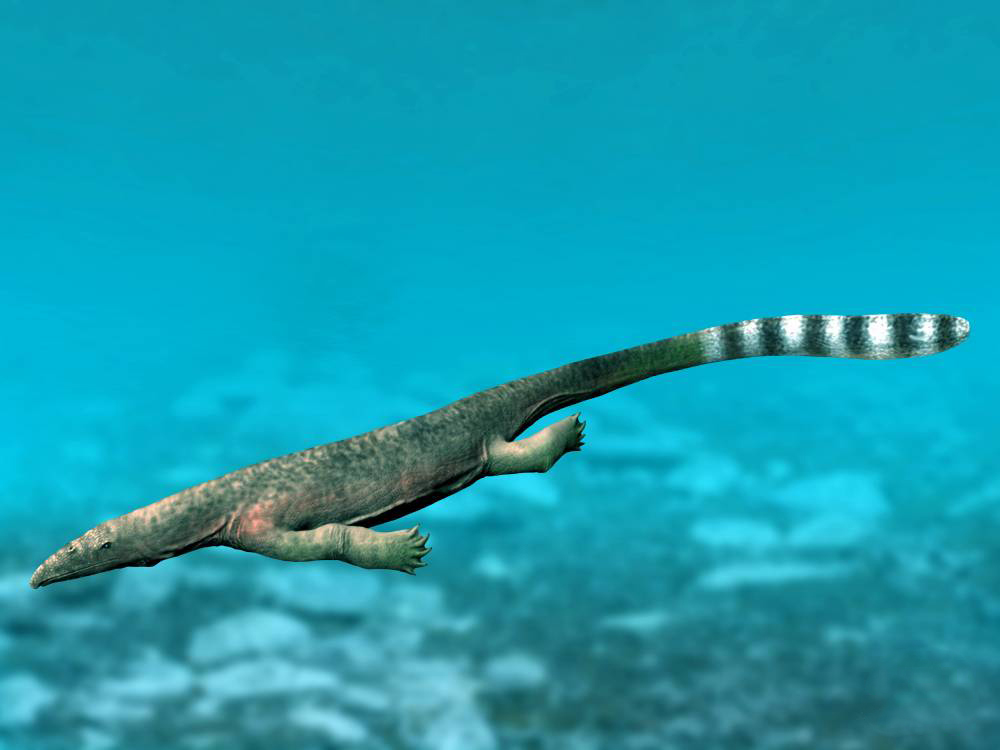 Life restoration of Thalattosaurus alexandrae.